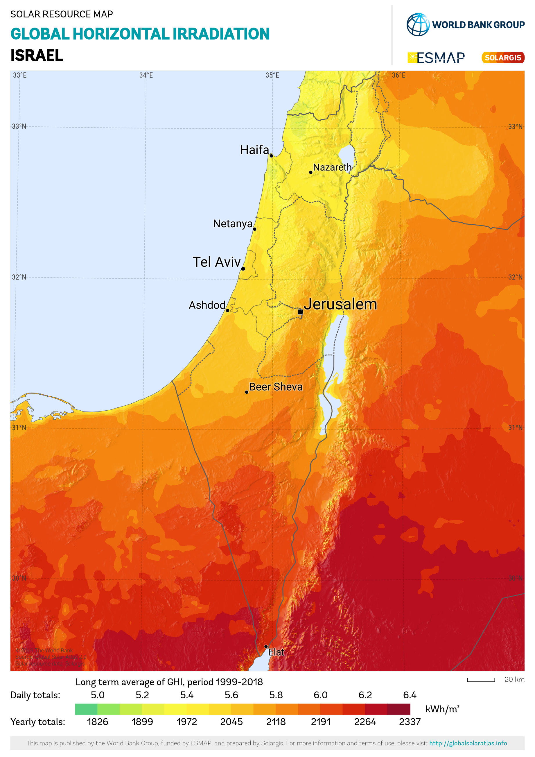 Global Horizontal Irradiation of Israel